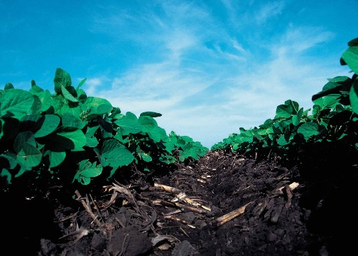 Soybeans growing in a ridge-tillage system. Ridge till soybeans in corn residue.